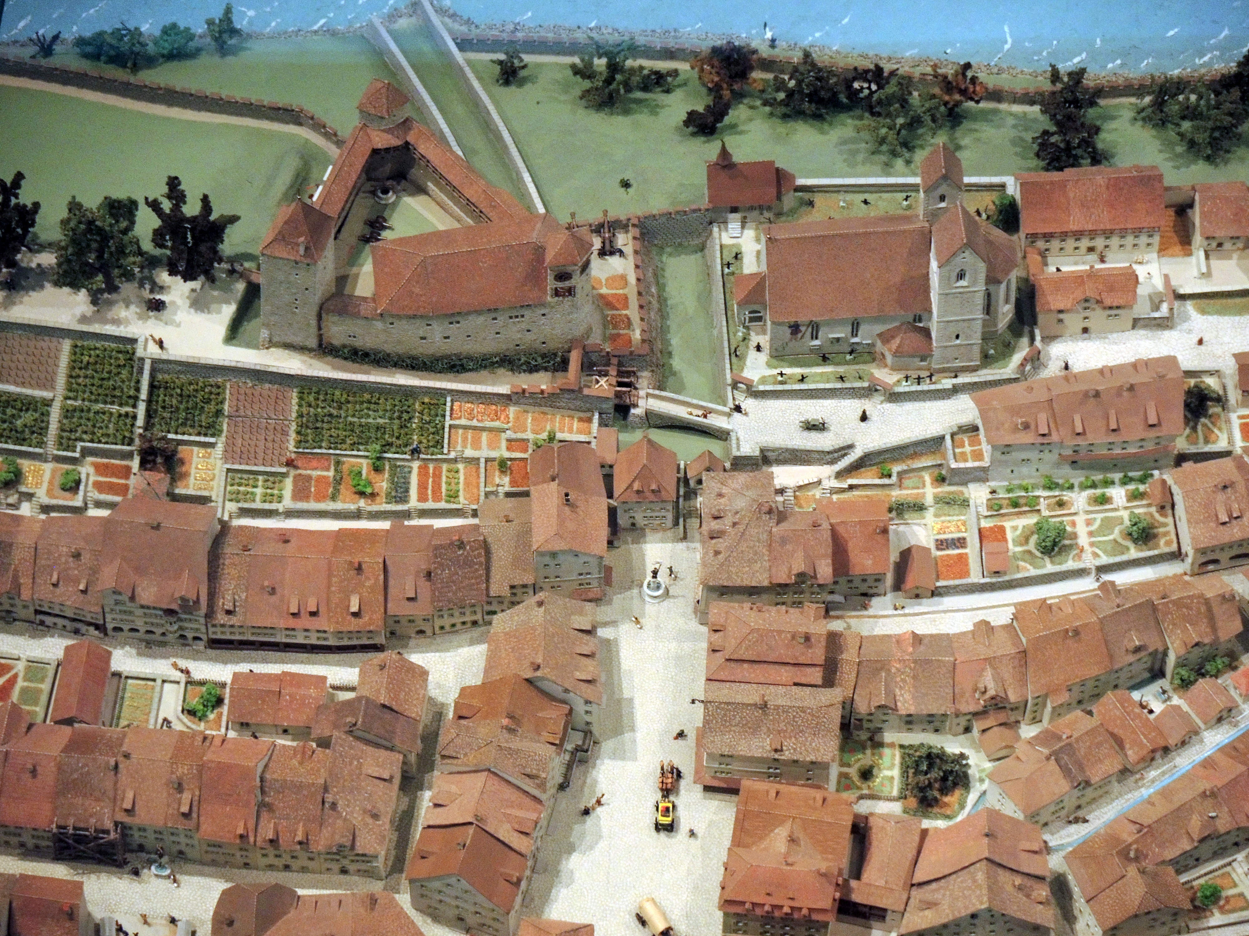 Scale model of the city around 1800 AD, collection of the Stadtmuseum) in Rapperswil (Switzerland) : Focus on Lindenhof hill, the castle and the St. John's church, Altstadt around Hauptplatz square.